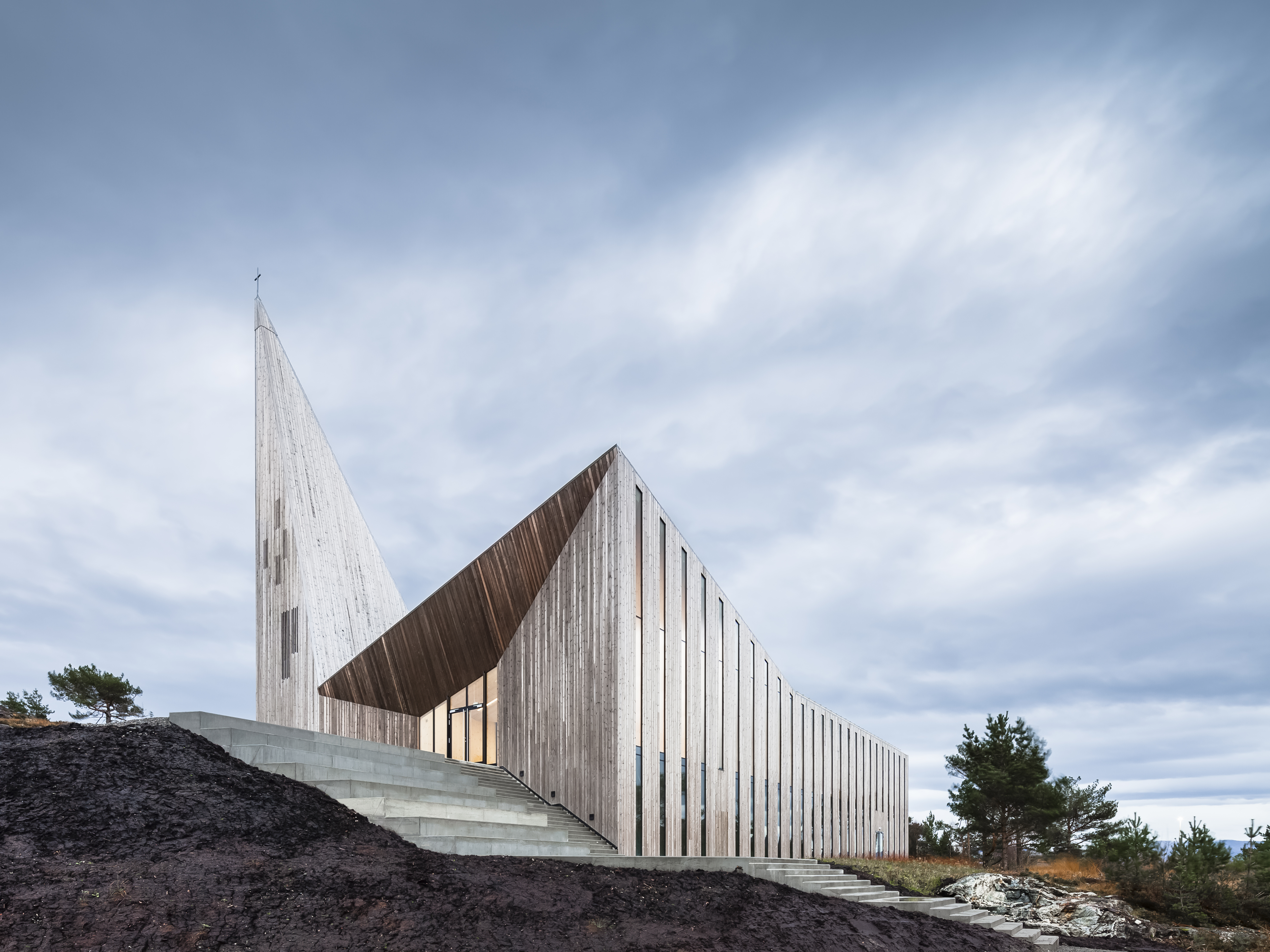 Knarvik Kirke